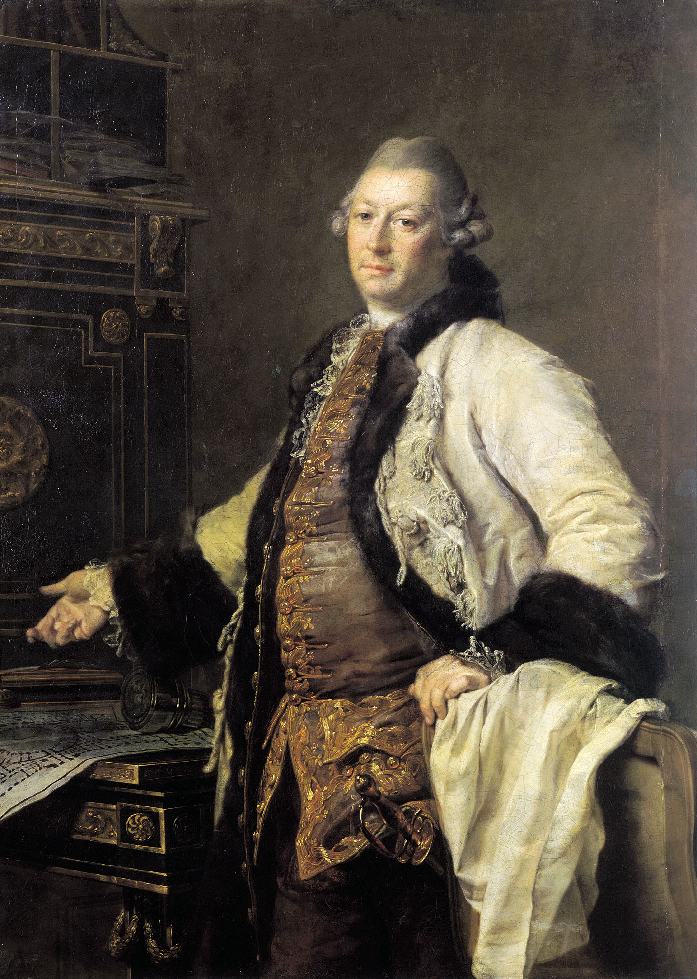 Portrait of Architect Alexander Kokorinov (1726-1772), Director and First Rector of the Academy of Arts